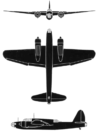 Drawings (provisional) for the Nakajima Ki-49 Donryu.